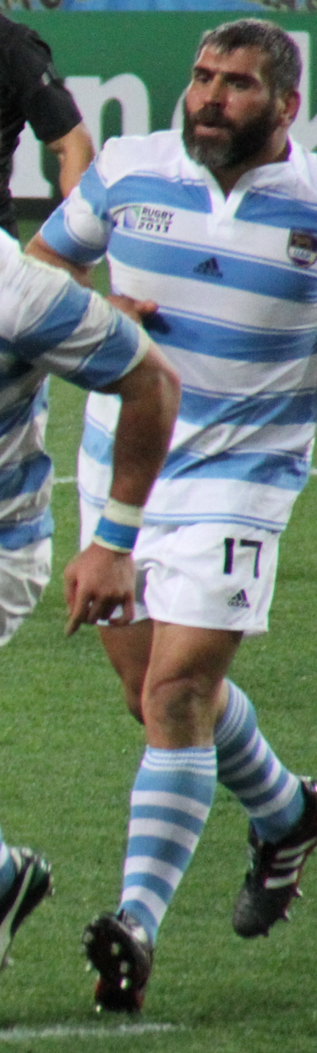 Argentinian rugby union player Martín Scelzo during 2011 Rugby World Cup match against England.